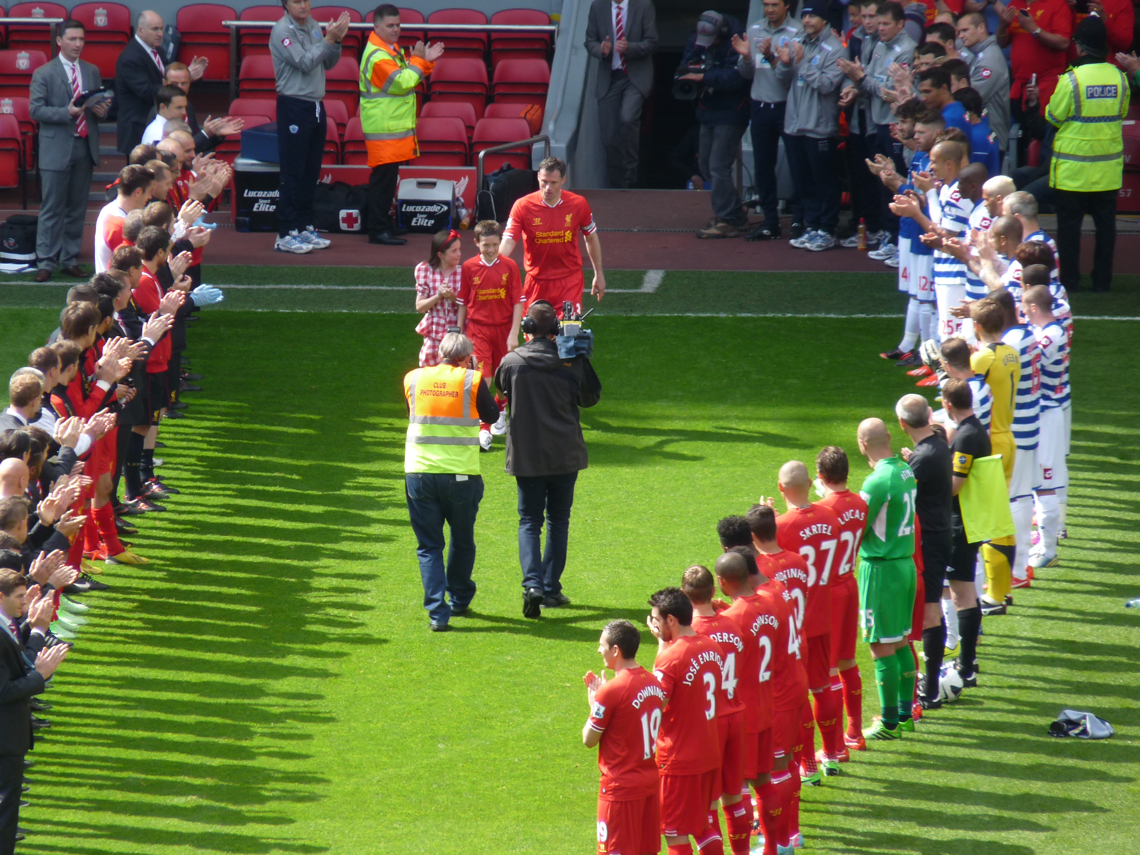 Carragher comes out for the QPR game to a guard of honour